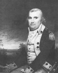 Charles Cotesworth Pinckney